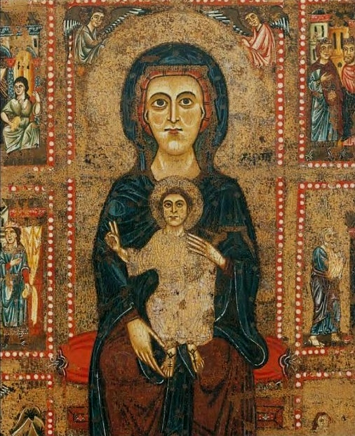 Maestro di Tressa. Madonna col Bambino in trono, due angeli e sei storie (mutile).